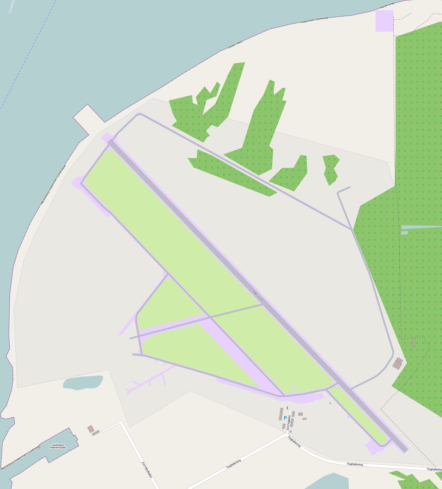 Open Street Map of the Peenemünde Airfield.